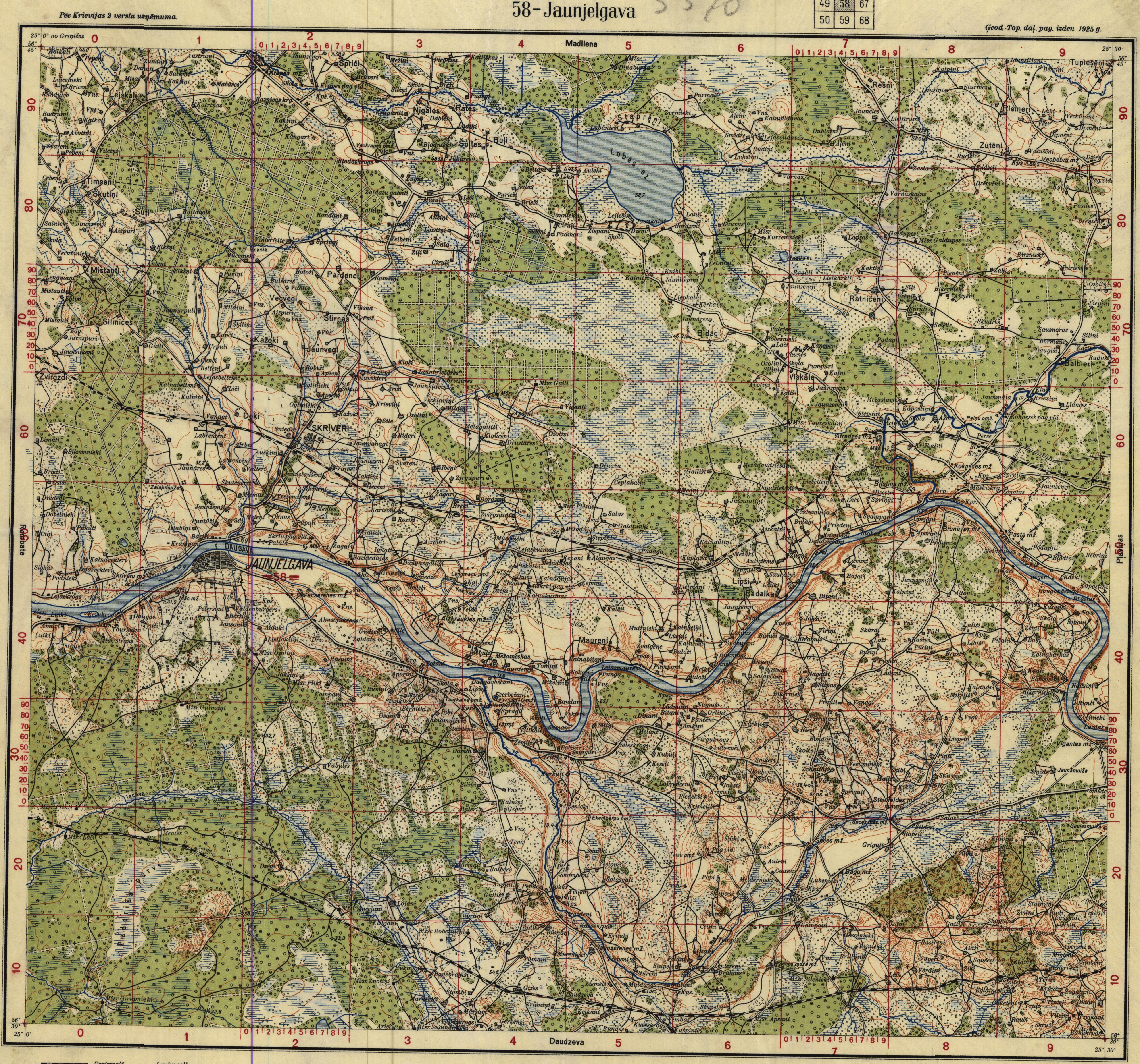 Topographic map in scale 1:75 000, 1926